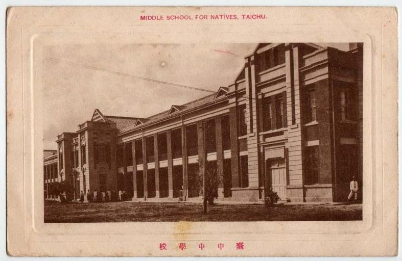 Governmental buildings in Taichu(Taichung).